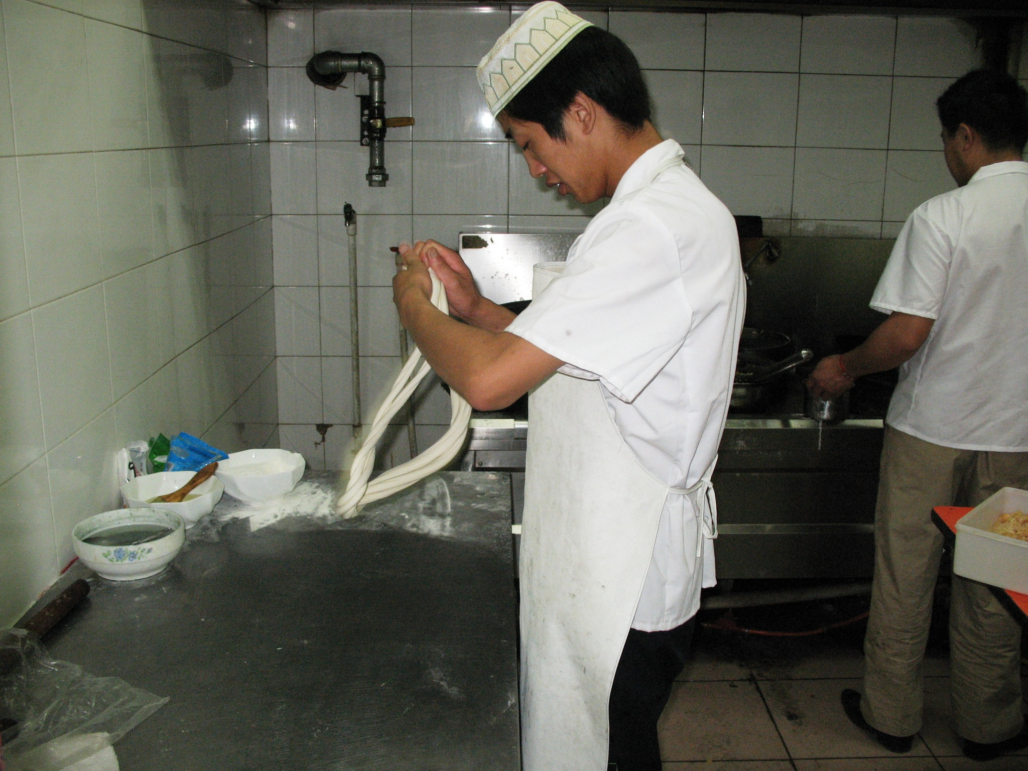 Cooking noodles in Beijin